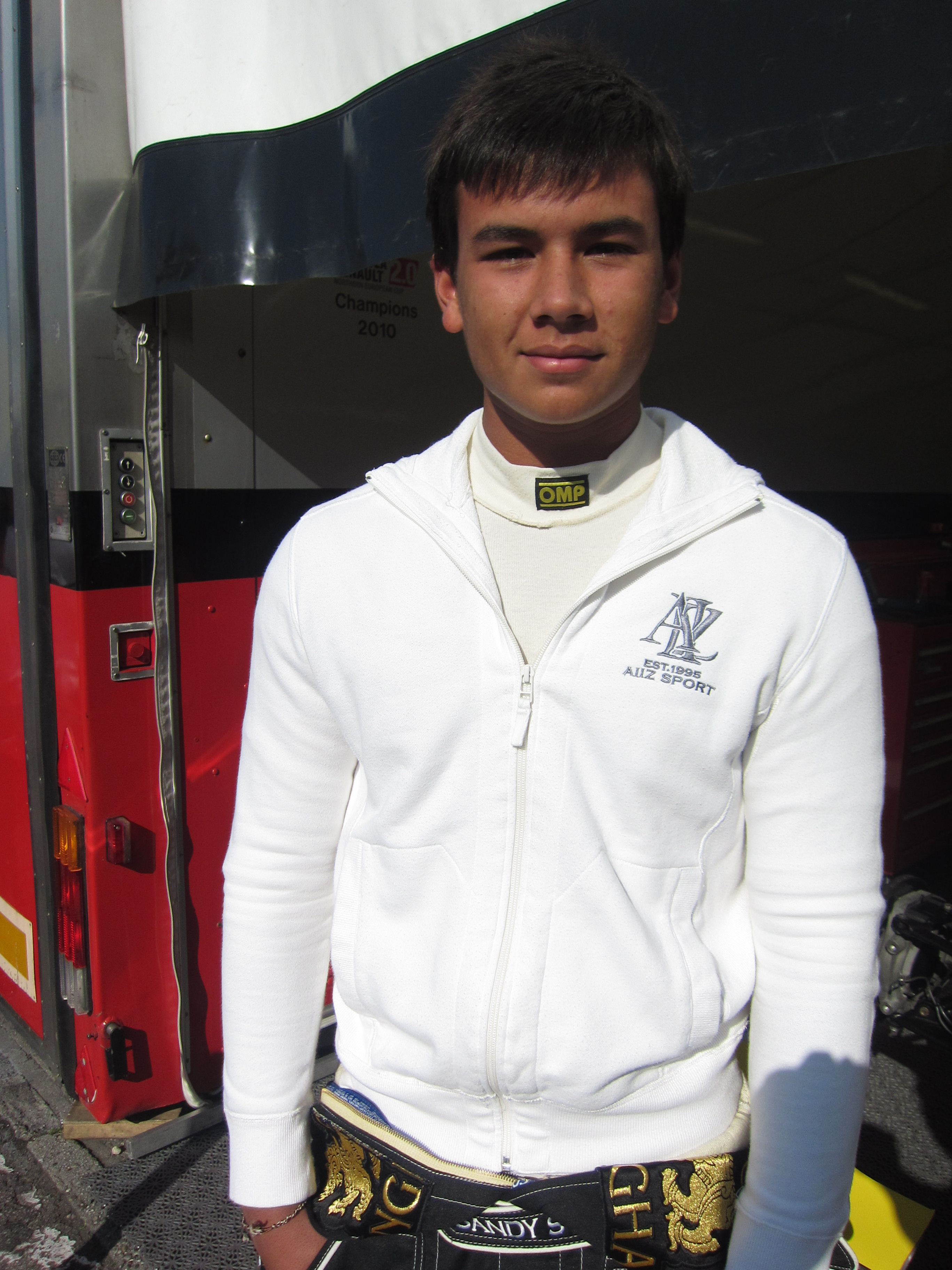 Sandy Stuvik: the photo was taken during 2011's Preis der Stadt Stuttgart (= Prix of the town Stuttgart) at Hockenheim